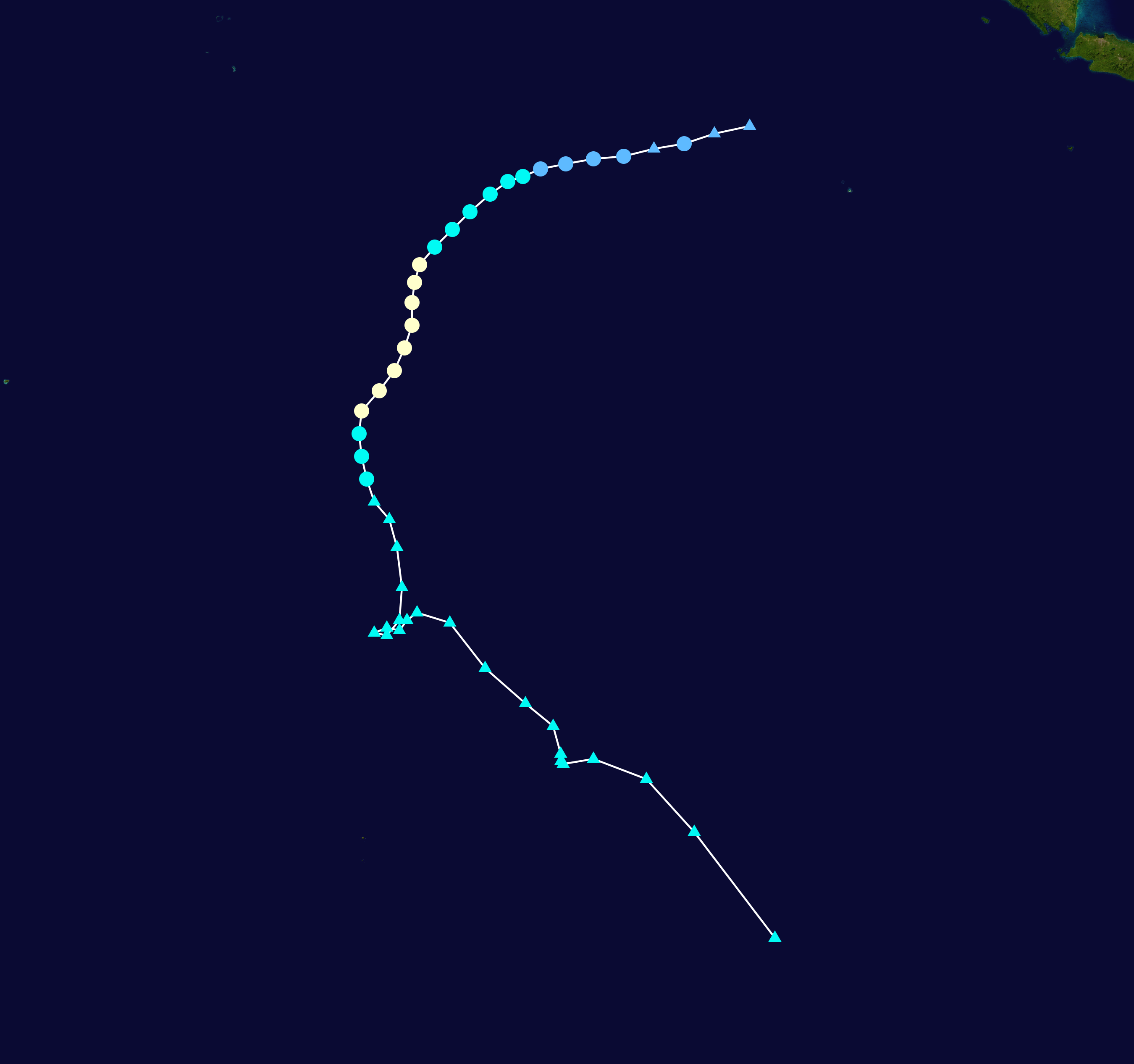 Cyclone Humba (2007) track. Uses the color scheme from the Saffir-Simpson Hurricane Scale.